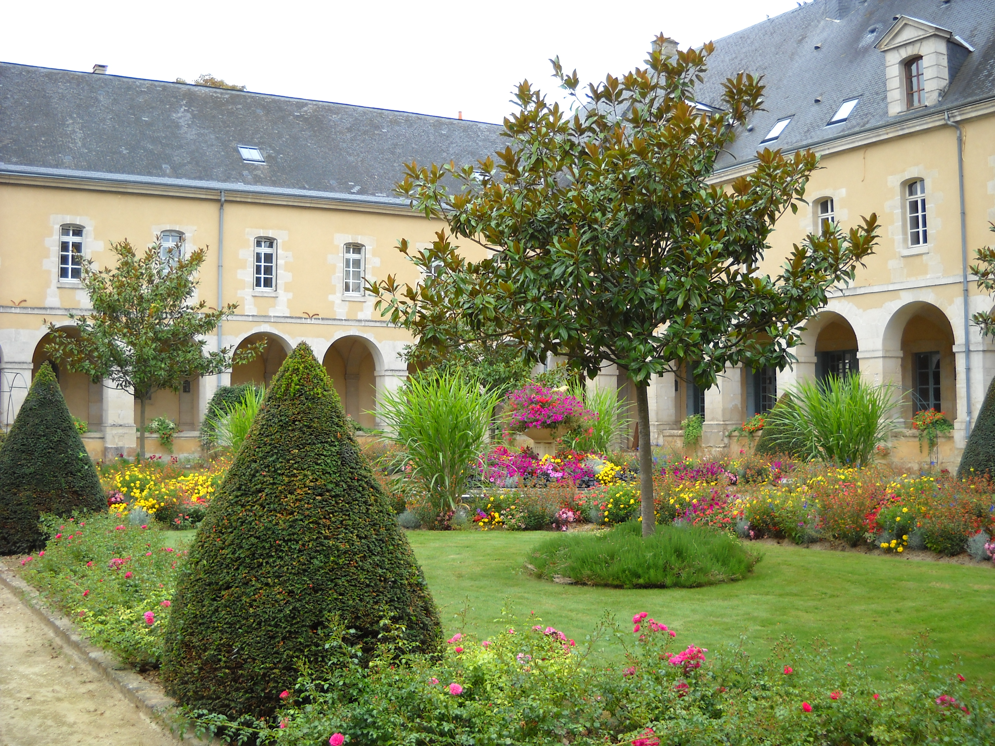 The cloister of the Convent of the Visitation, in Mamers, Sarthe, France.